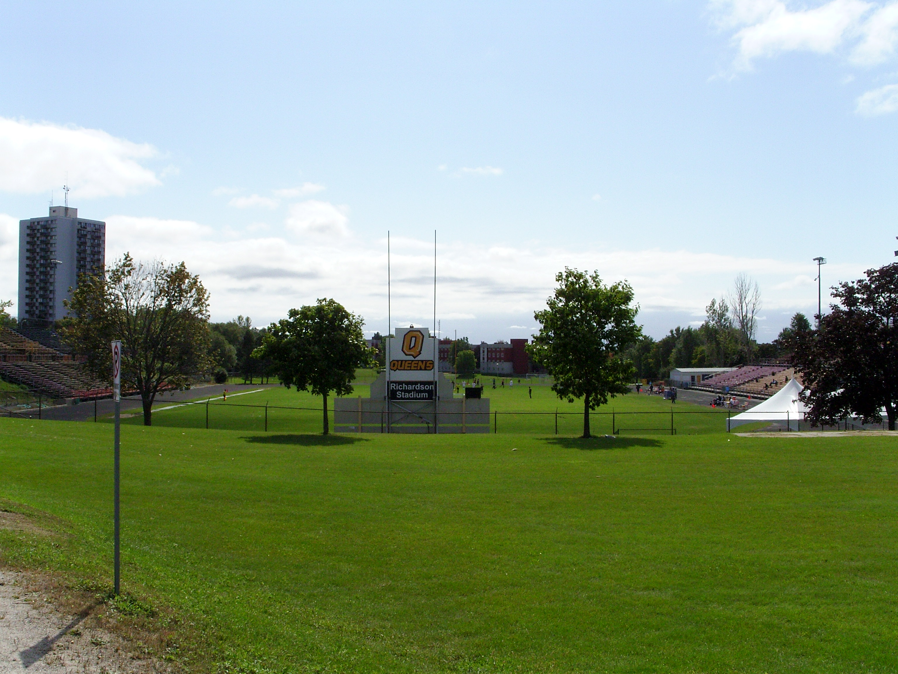 Photograph of Richardson Memorial Stadium, Kingston, Ontario.